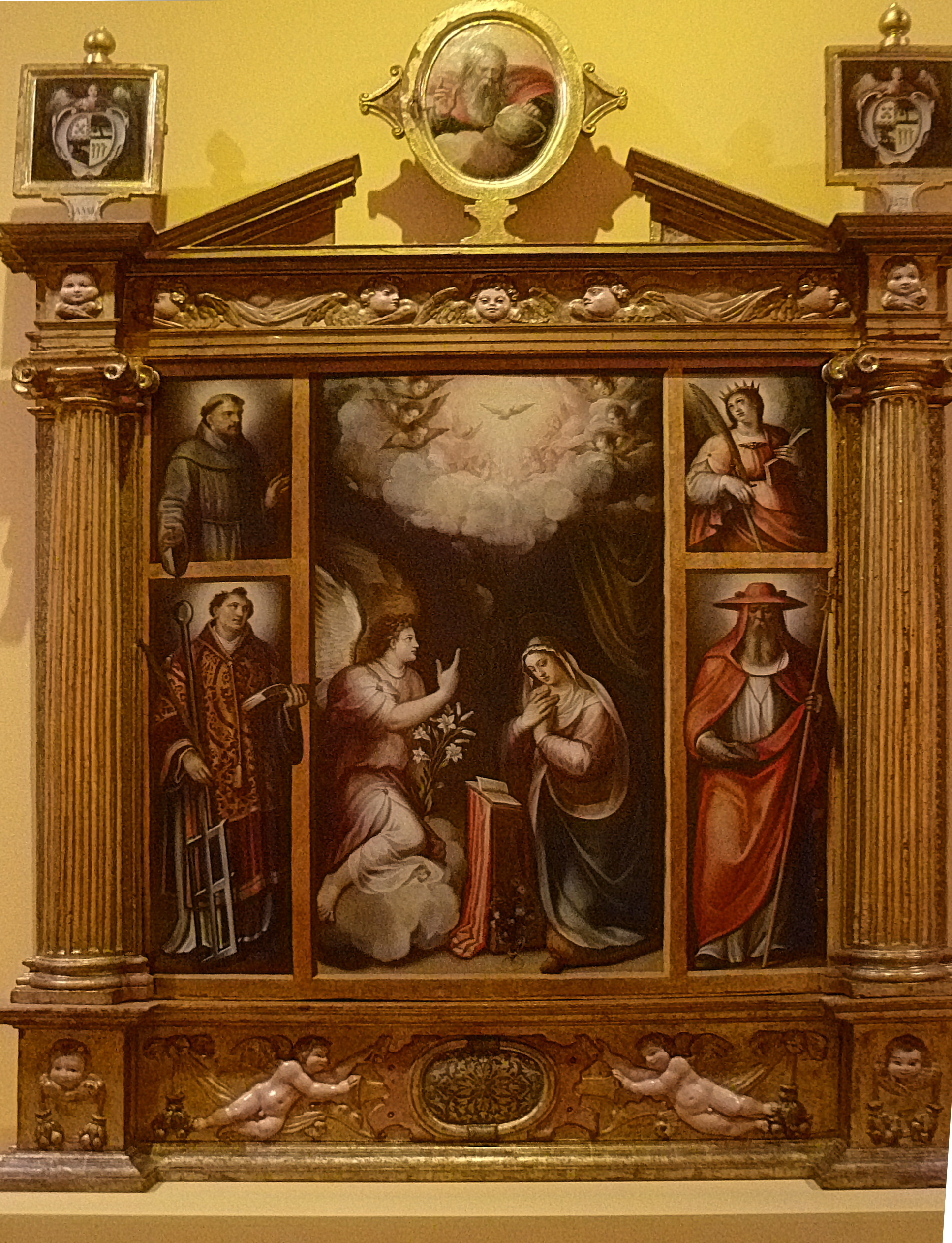 "Altarpiece of the Incarnation" by Hernando de Ávila and Luis de Velasco (1584); museum of Santa Cruz, Toledo, Spain